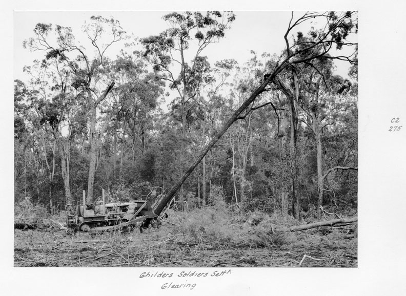 Bulldozer clearing at the Childers Soldiers Settlement. (Item 435605, Register to the photographs, makes reference to the Lands Department.)